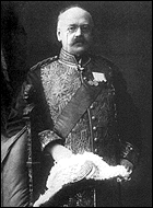 Image of Alexander Fyodorovitch Trepov (1862 - 1928), Prime Minister of Russia from 1916 to 1917